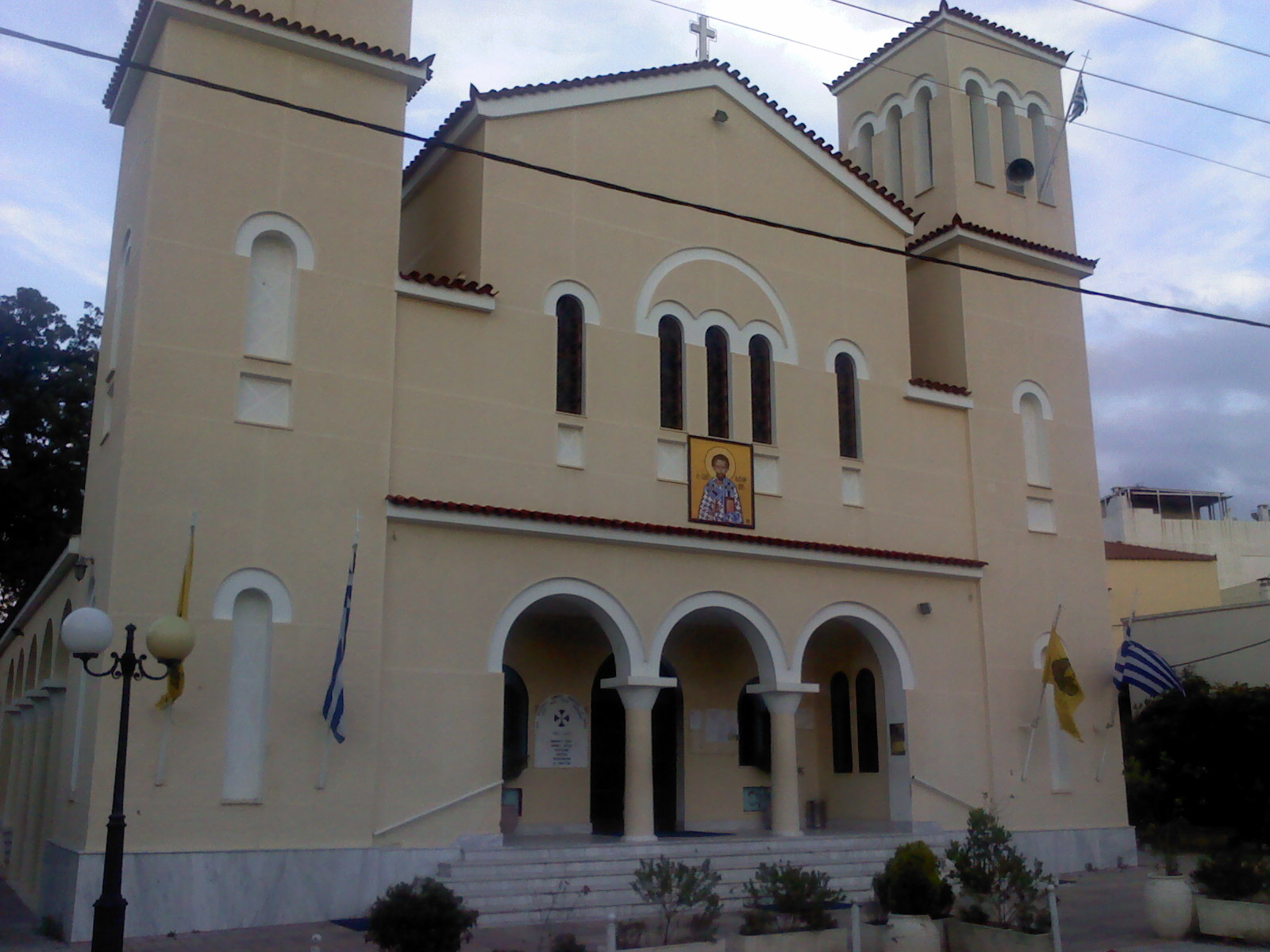 Agios Eleftherios Amarousiou